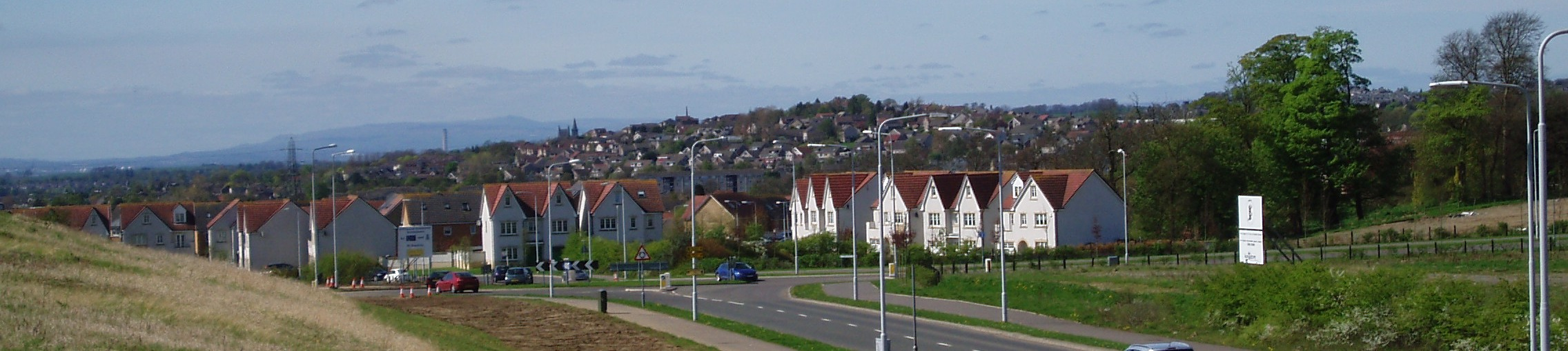 View of Dunfermline from the eastern expansion area.